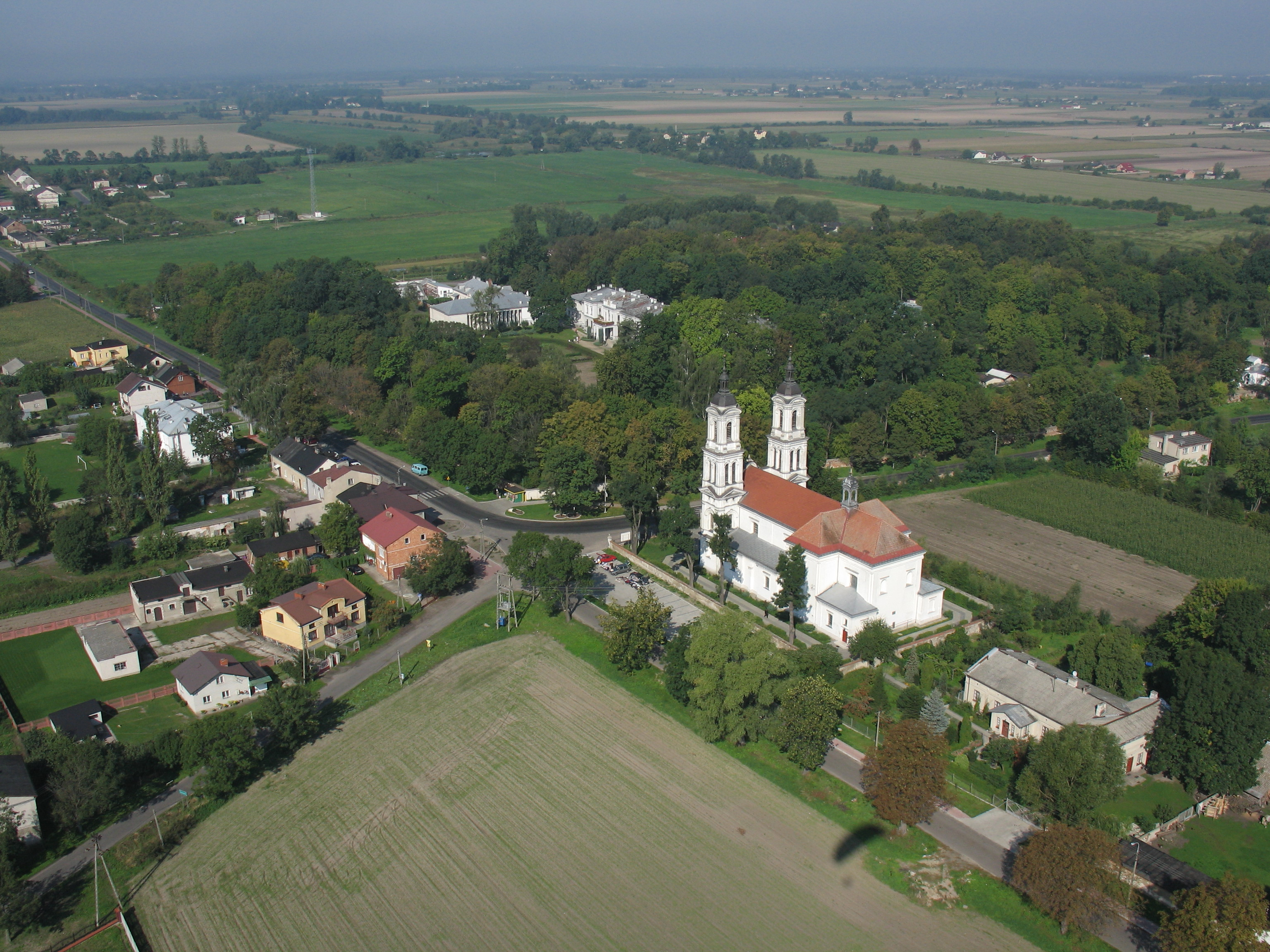 Szymanów 2008